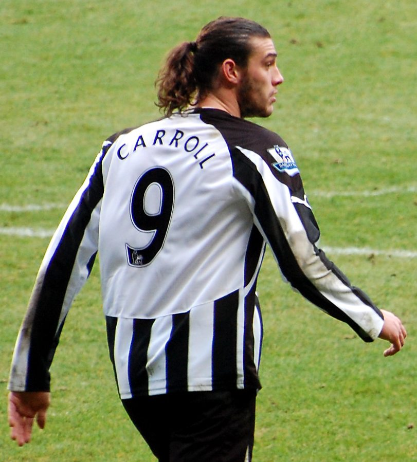 Andy Carroll cropped